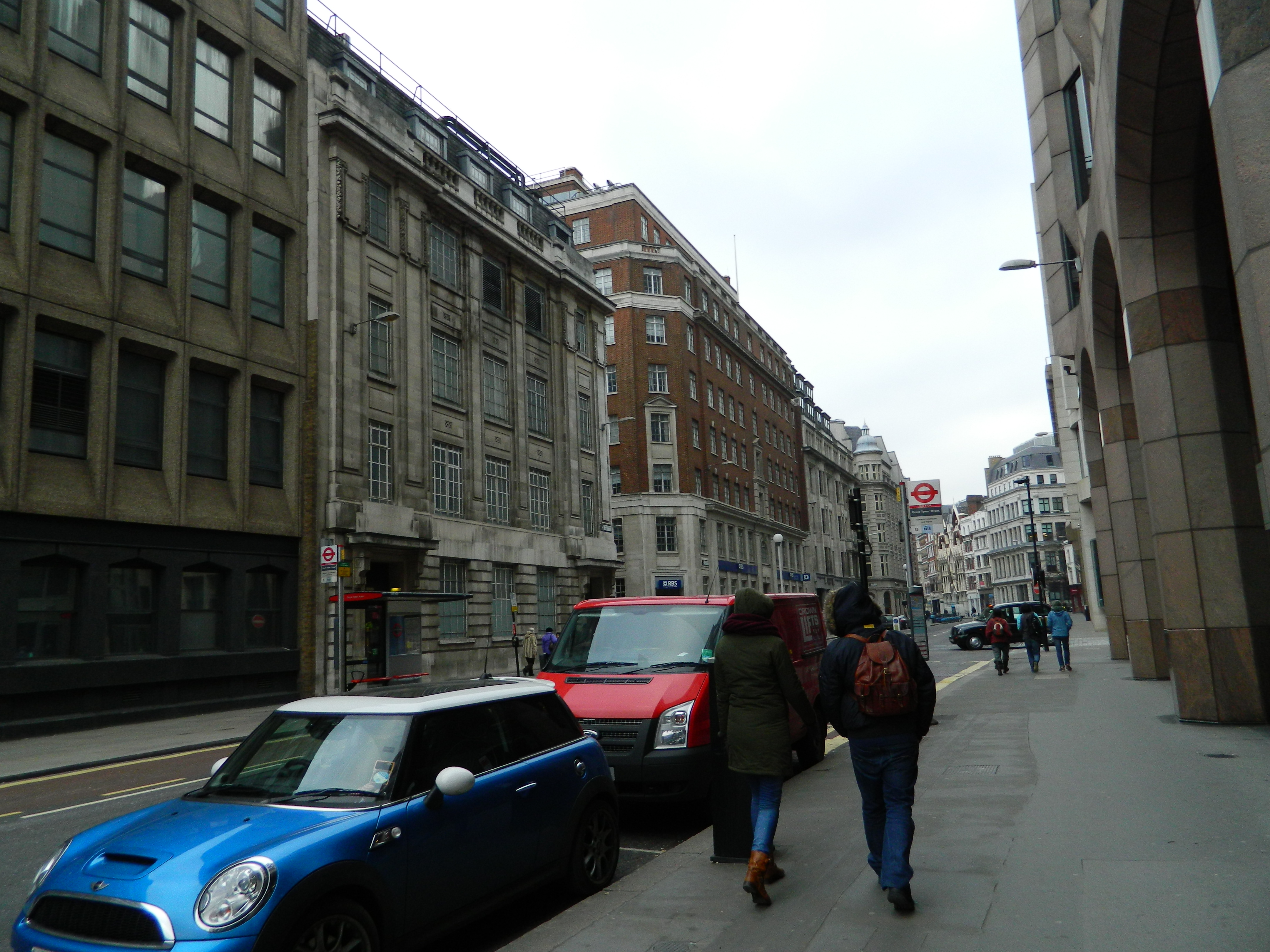 Great Tower Street, London.